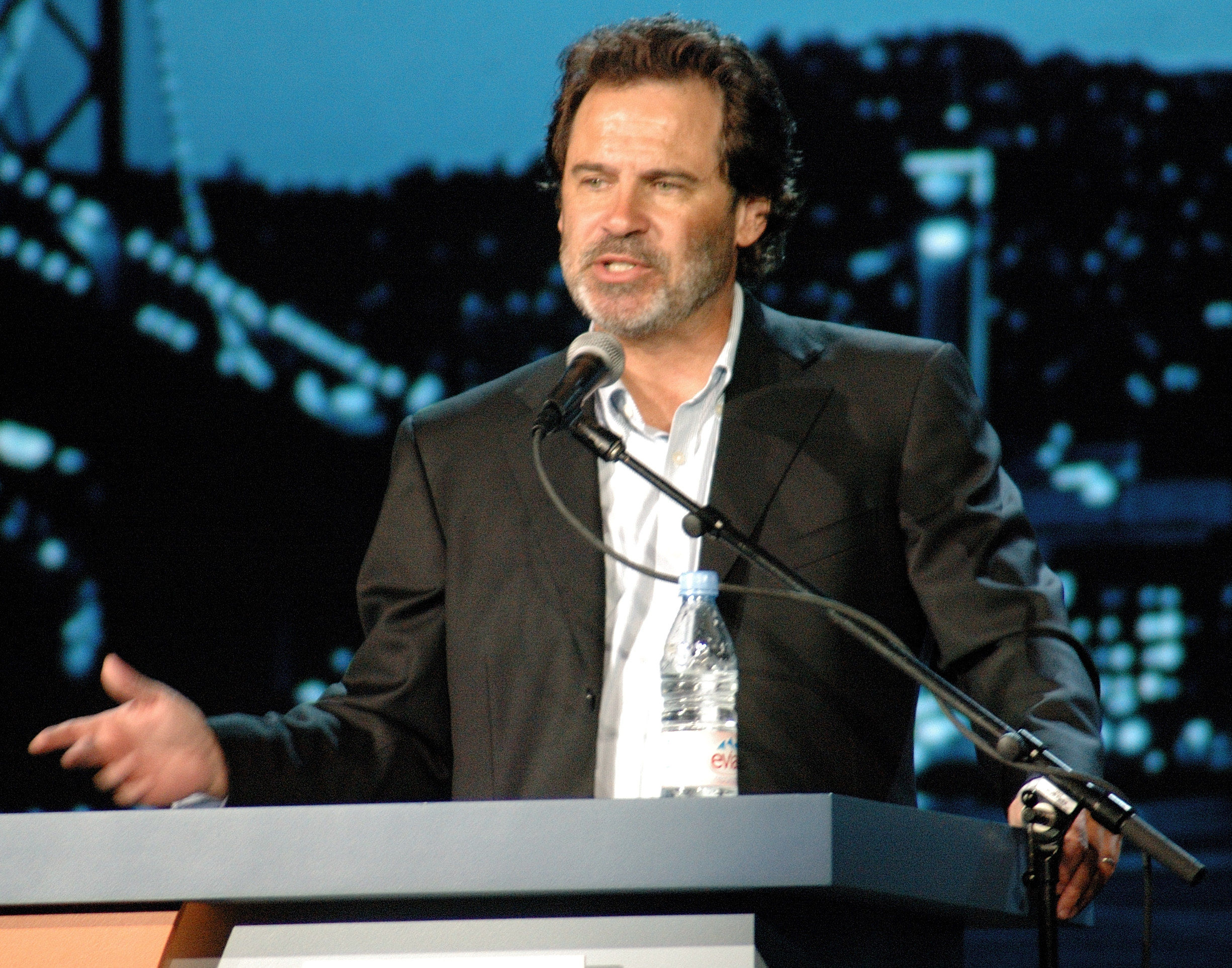 Dennis Miller speaking at JavaOne, 2005. edit of flickr image [1] Attribution: texas mustang